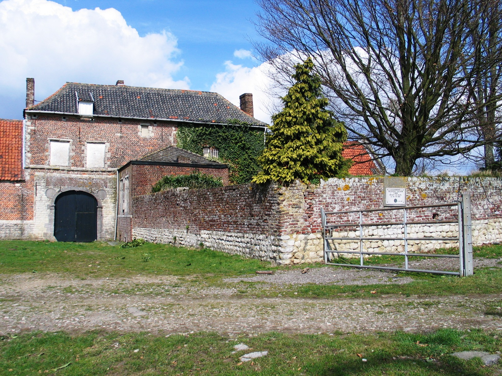 southgate hougoumont - own work - see also Paul Hermans at the dutch wikipedia